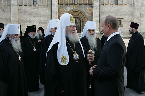 Vladimir Putin meets the members of Russian Orthodox Church Holy Synod: Patriarch Alexy II, Metropolitans Vladimir and Filaret